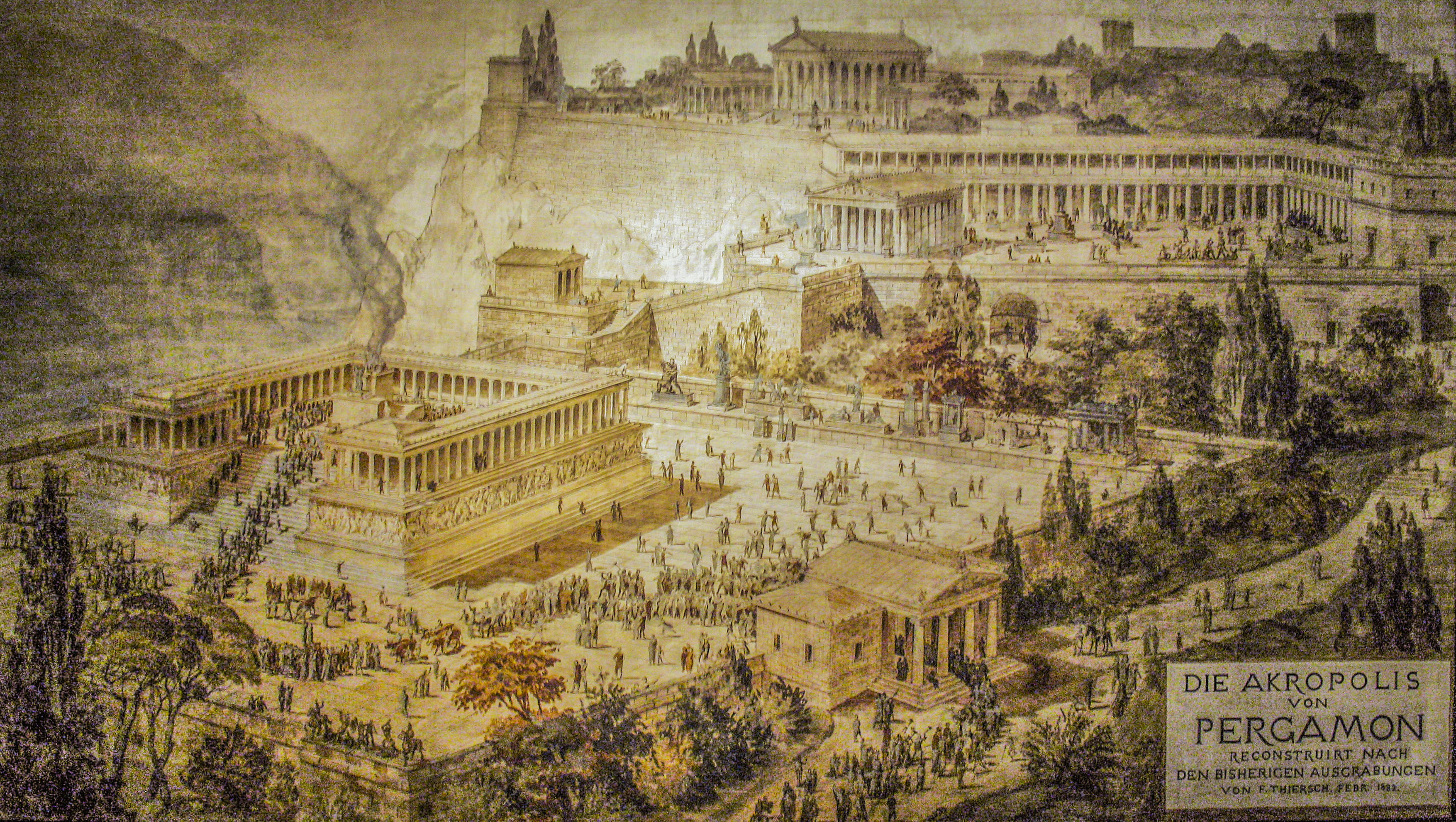 The Acropolis of Pergamon, reconstruction 1882